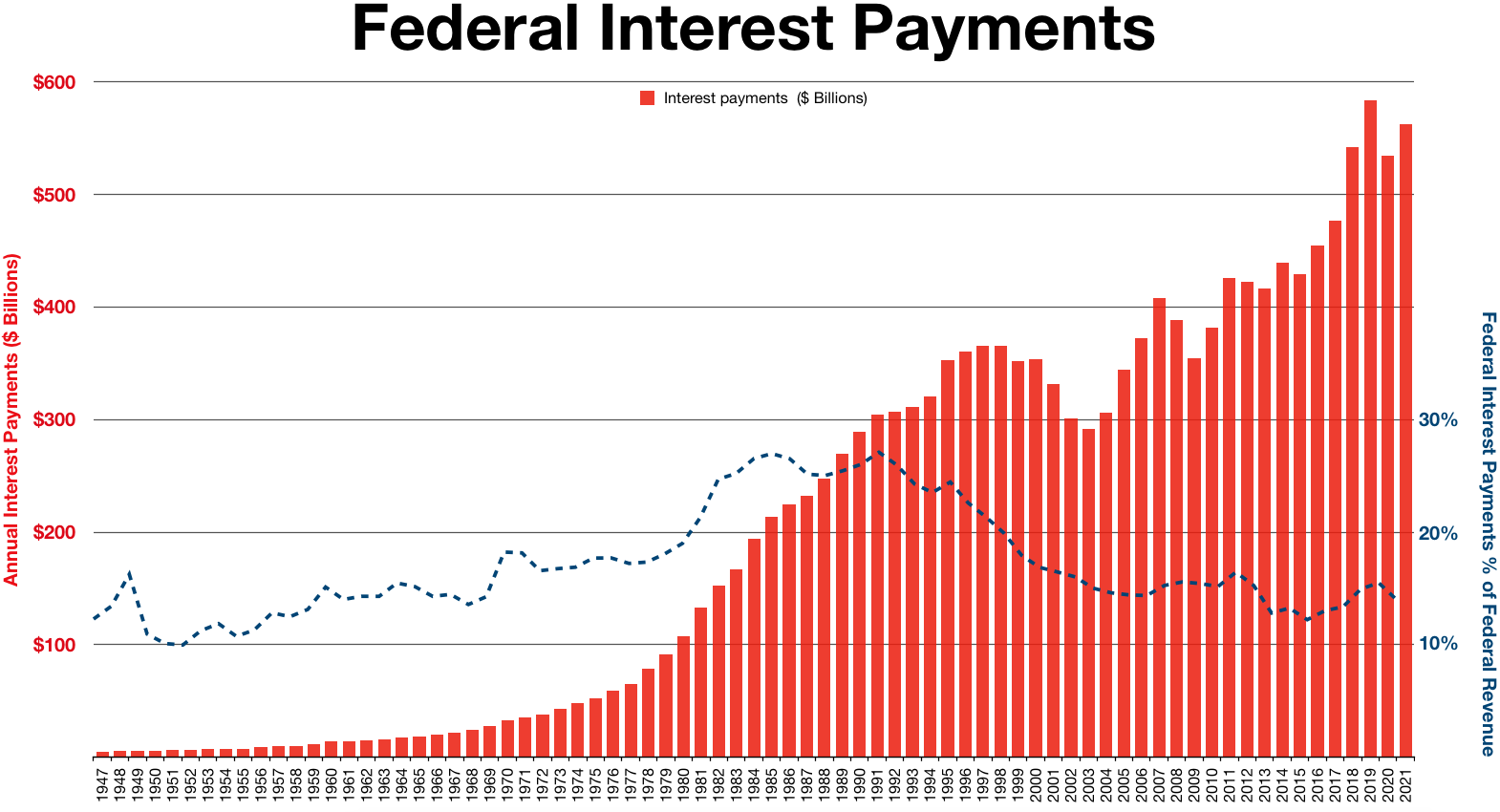 Interest on the federal debt